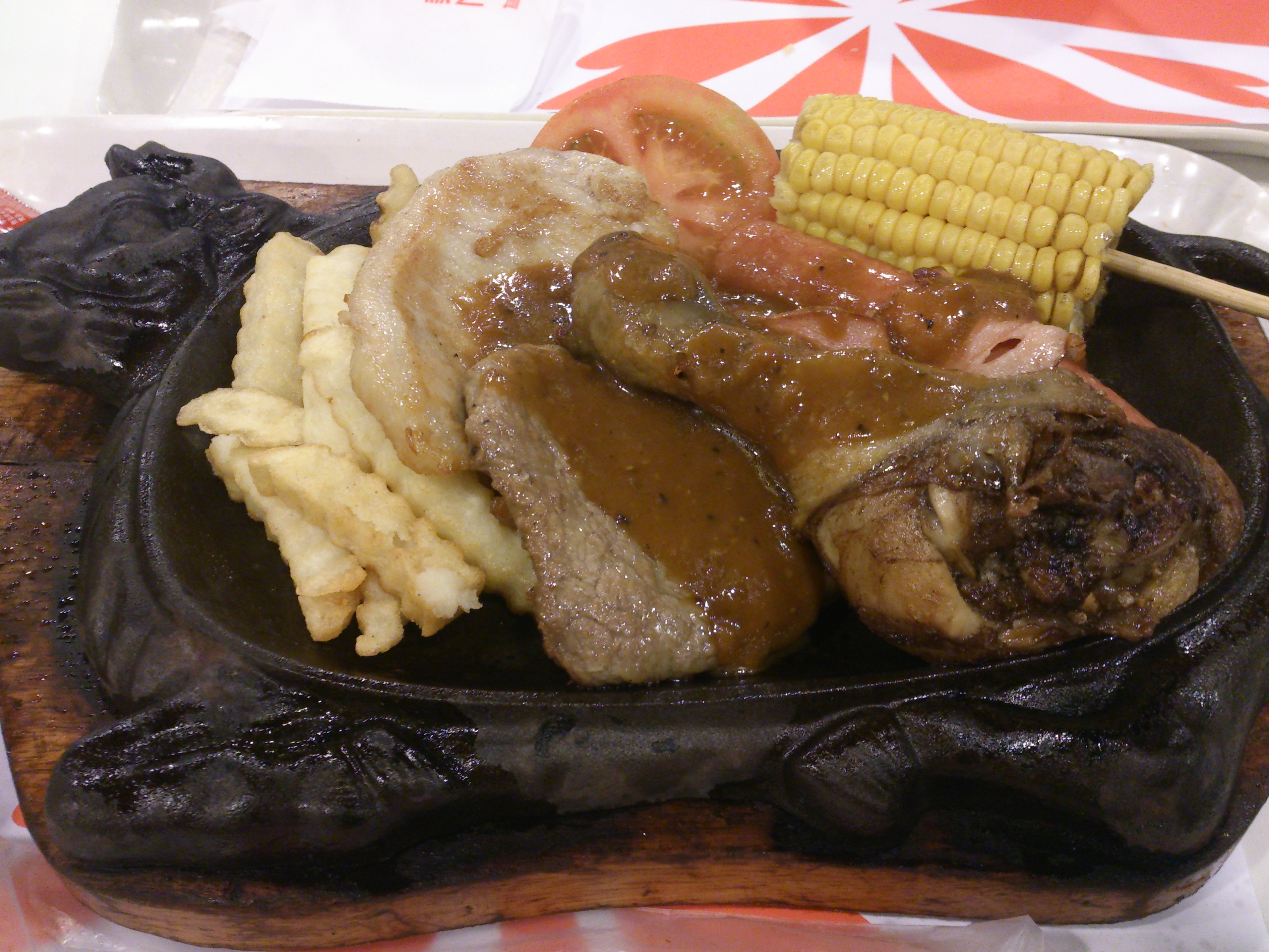 Mixed grill (beefsteak, pork chop, chicken drumstick, sausage, bacon, corn cob, tomato, french fries) on sizzling plate